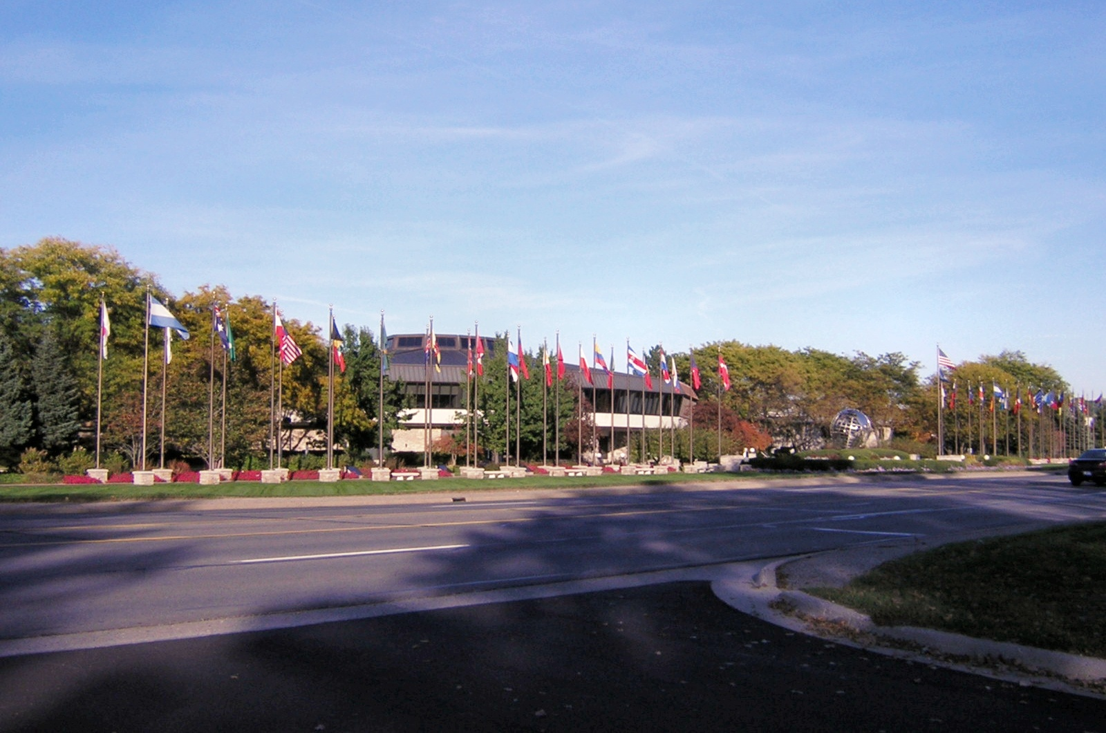 A scene from Ada, Michigan. Ada Township is a civil township of Kent County in the U.S. state of Michigan. As of the 2000 census, the township population was 9,882. The unincorporated community of Ada is located within the township on M-21 twelve miles east of Grand Rapids. Ada is the corporate home of Alticor and its subsidiary companies Quixtar and Amway. This image is of the Alticor/Amway world HQ on Fulton (M-21).